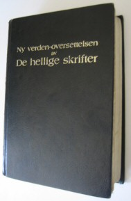 Photo of New World Translation of the Holy Scriptures (Norwegian)